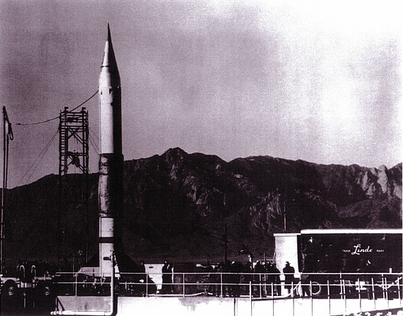 Viking rocket #9